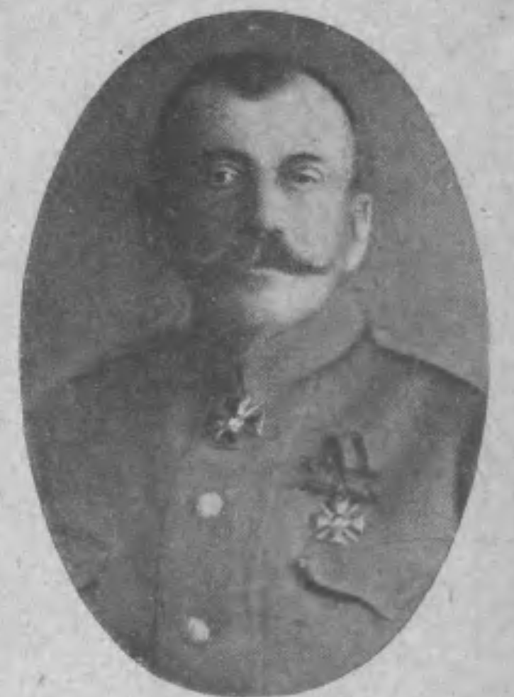 2=Col. John Rządkowski - Commander Pulaski Legion (22 May - 13 October 1915)